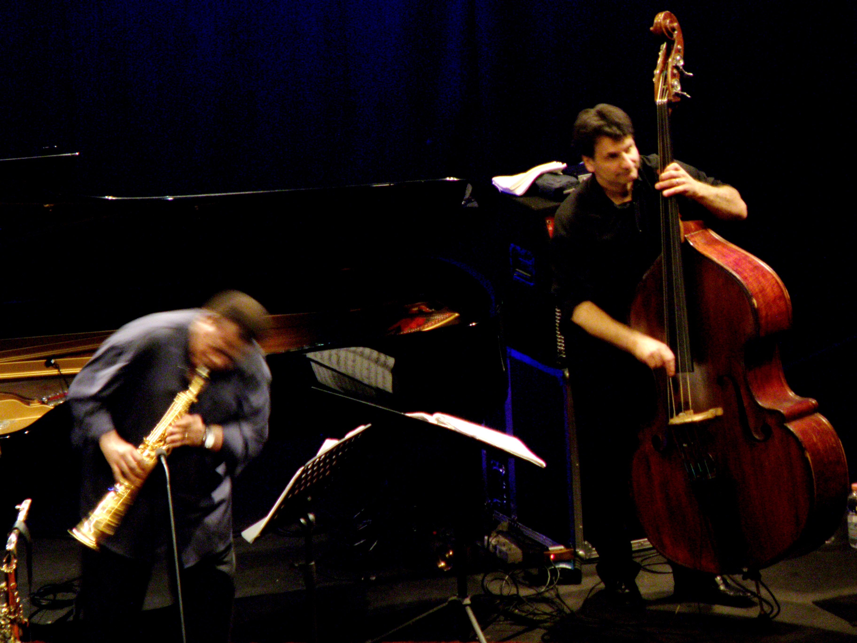 Wayne Shorter (saxophone) and John Patitucci (double bass), in concert with Wayne Shorter quartet at the Teatro degli Arcimboldi, Milano, on the 28th June 2010.